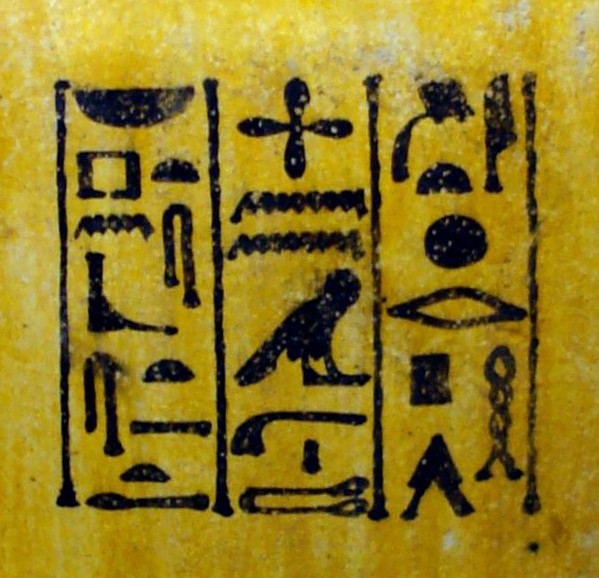 Canopic jar of Lady Senebtisi. Limestone. Middle Kingdom, Dynasty XII, c. 1938-1759. From Harageh, tomb 92.